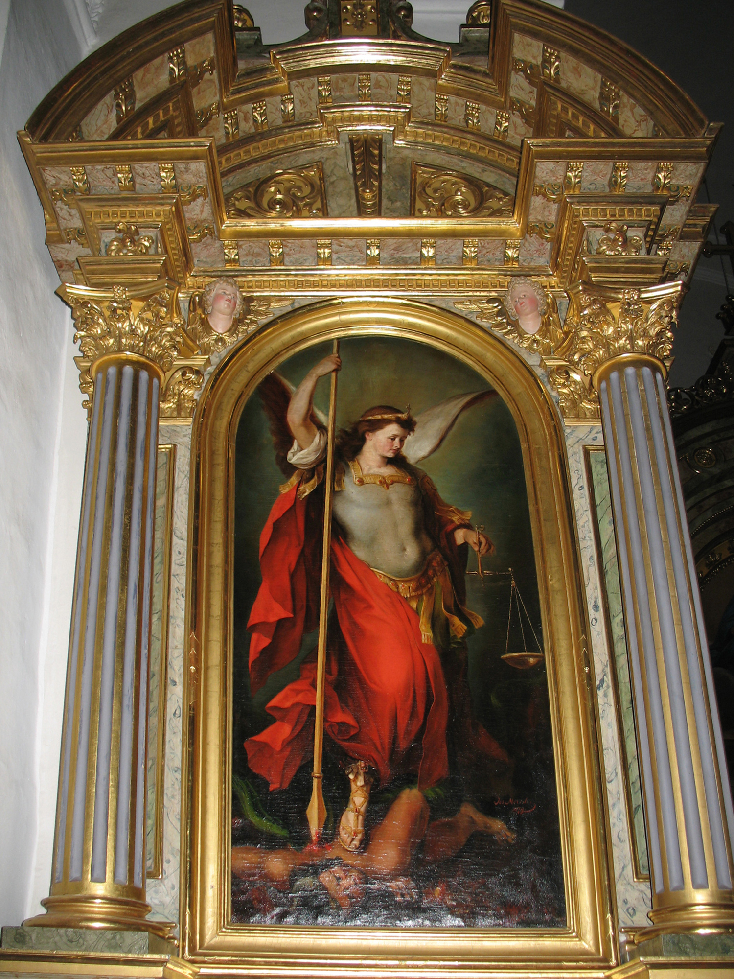 Archangel Michael From the S. Antony church of St. Ulrich in Gröden - Ortisei Val Gardena Italy. painter Josef Moroder-Lusenberg 1876.